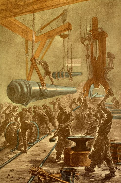 An illustration from Jules Verne's novel "The Begum's Fortune" (also published as "The Begum's Millions"). Orginal description